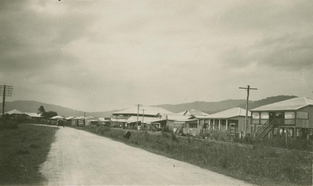 Township of Silkwood formerly Liverpool Creek, circa 1930